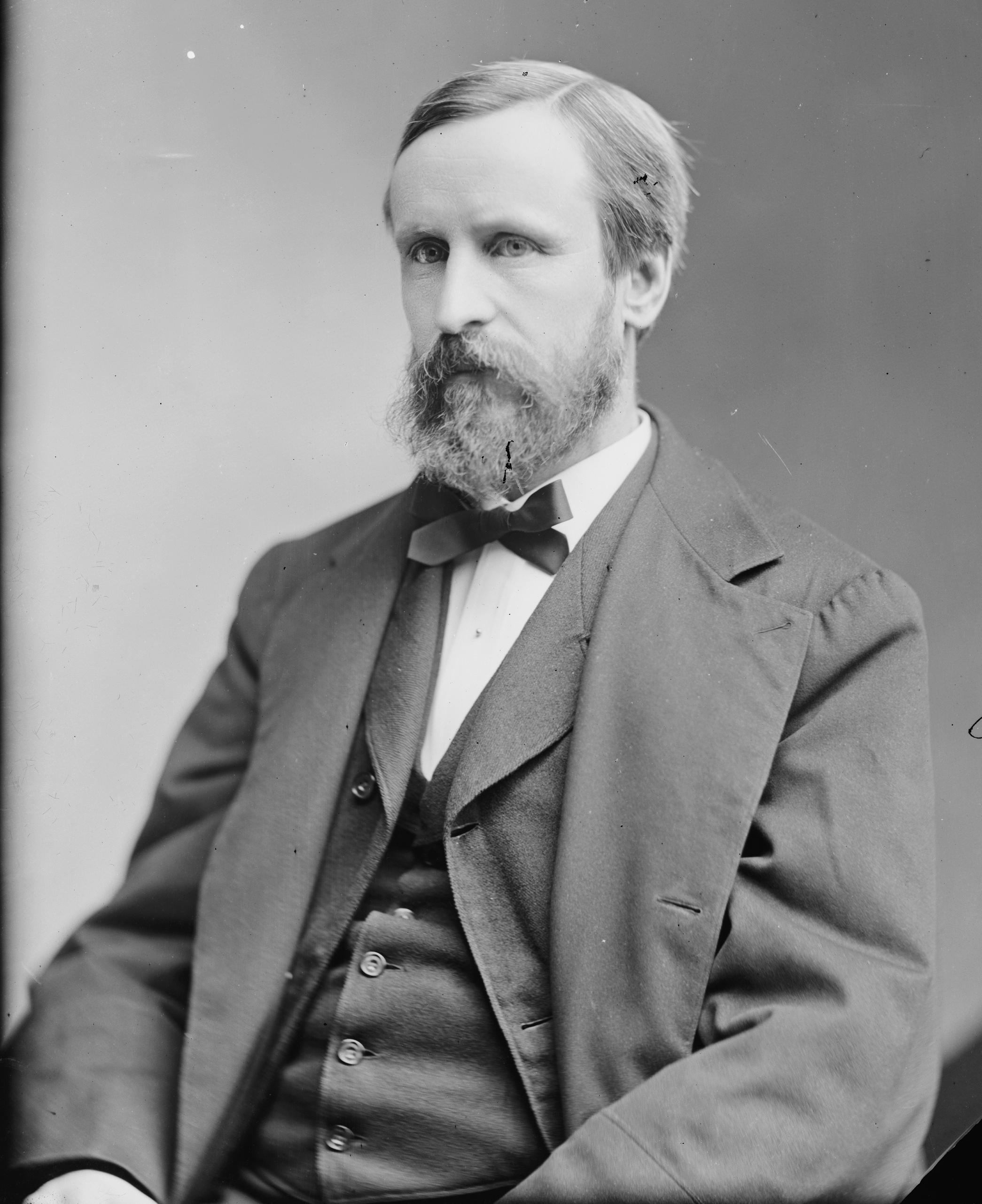 Larkin Goldsmith Mead. Library of Congress description: "Meade, Larkin G. of Florence, Italy".